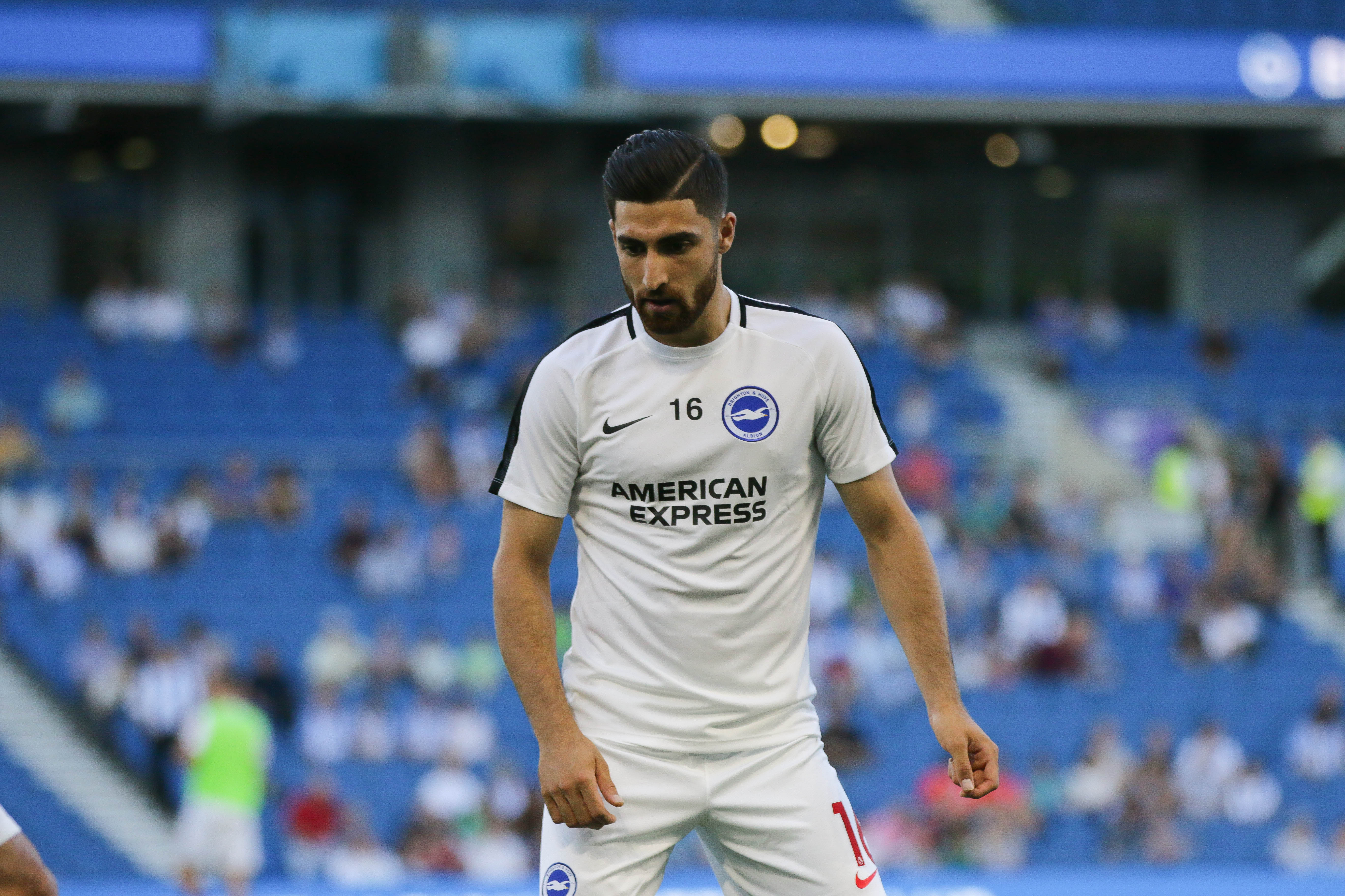 BHA v FC Nantes pre season 03 08 2018-7.jpg